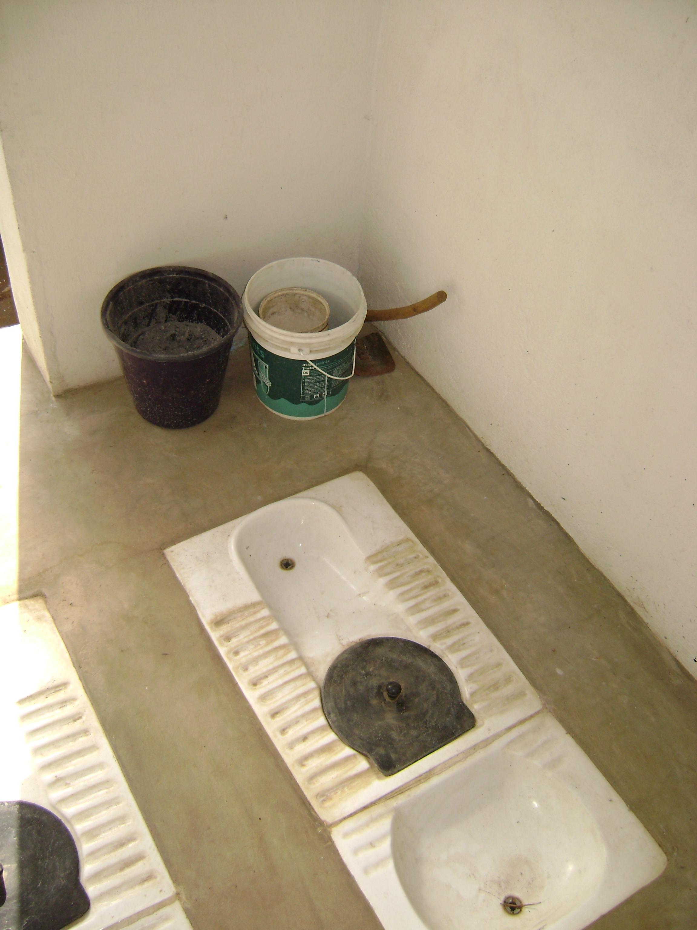 Garden tool probably only stored here. Photo by Lucas Dengel October 2009